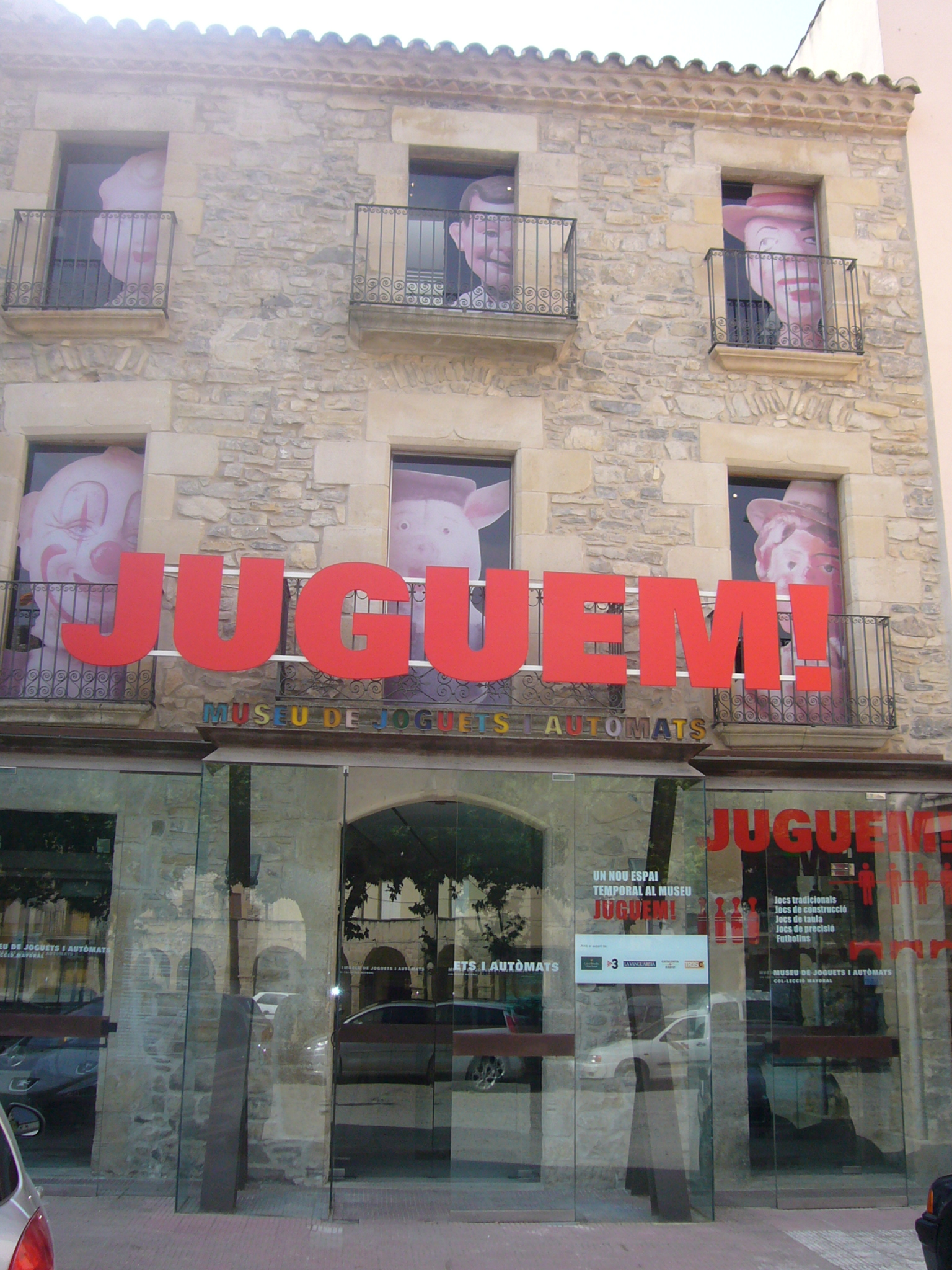 Toy museum located in Verdú